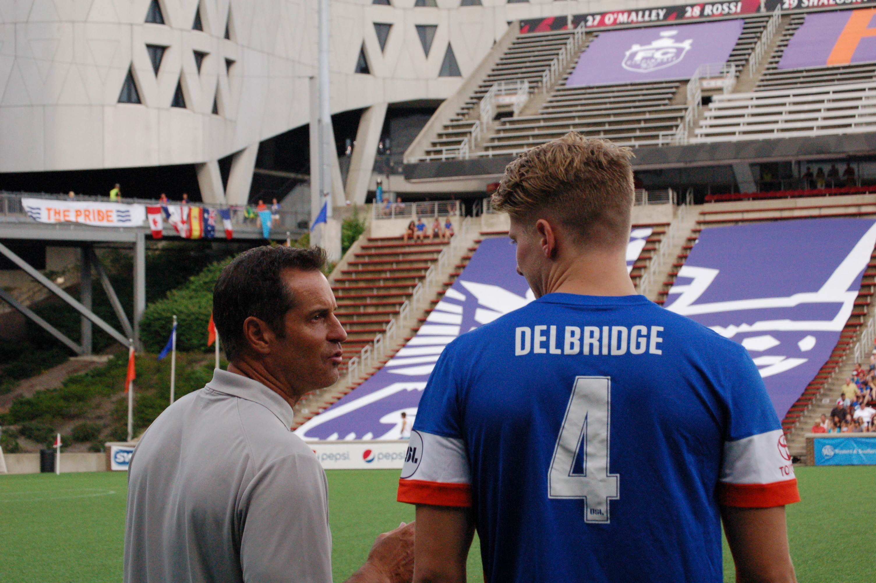 John Harkes (CIN), Harrison Delbridge (CIN) Taken during a match between FC Cincinnati and New York Red Bulls II at Nippert Stadium in Cincinnati, USA on July 20, 2016.